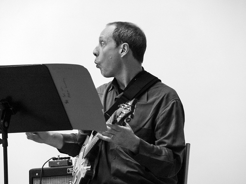 Harrison in Aarhus Denmark 2011 with Joel Harrison String Choir